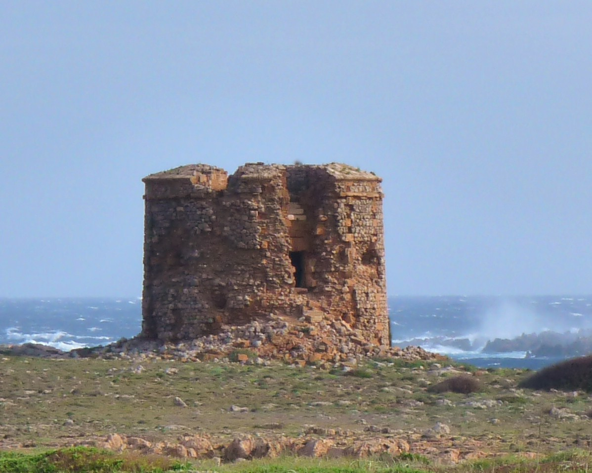 British tower at the Port of Sanitja, Menorca, Spain